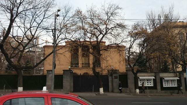 embassy of China, Yerevan